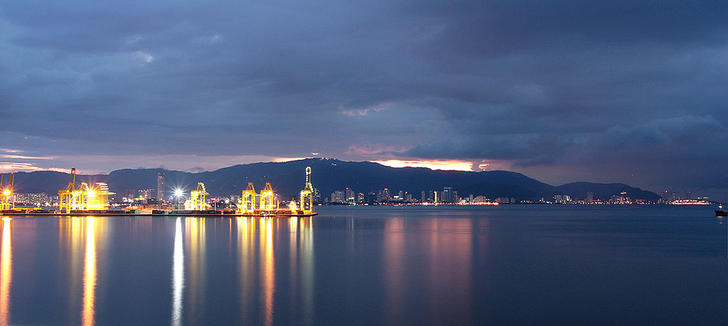 Penang port night scene looking from butterworth